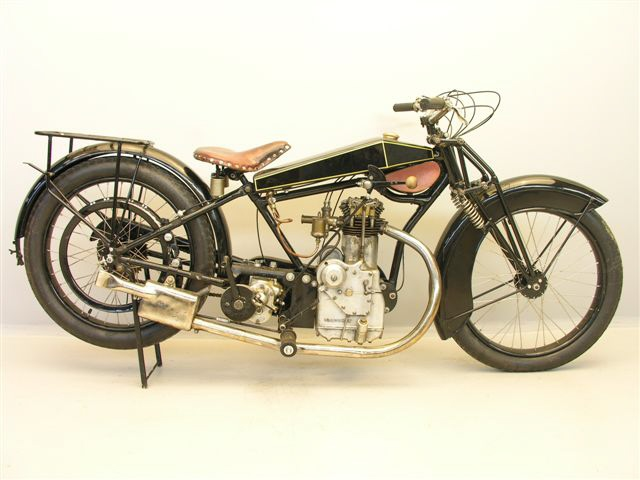 Sheffield-Henderson motorcycle 1922